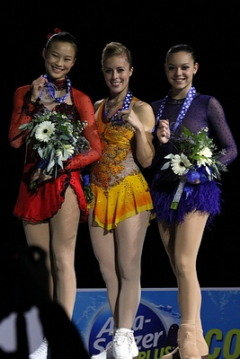 The ladies podium at the 2012 Skate America. From left: Christina Gao(2nd); Ashley Wagner (1st); Adelina Sotnikova (3rd)